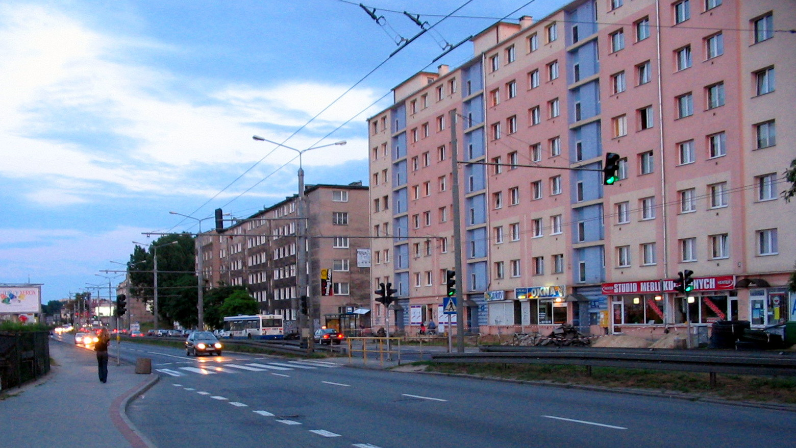 Morska Street (formerly "Czerwonych Kosynierów") in Gdynia, Poland